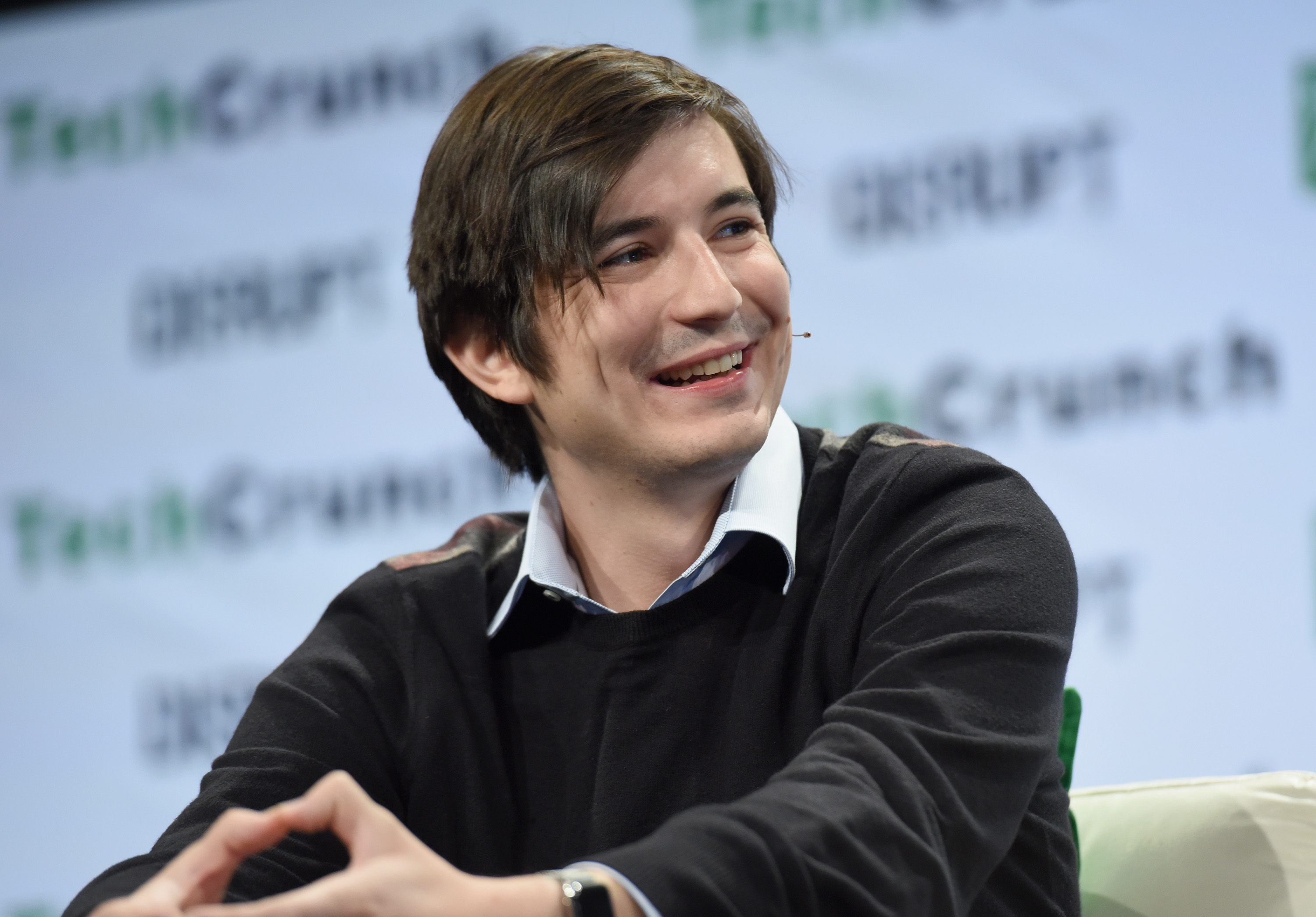 NEW YORK, NY - MAY 10: Co-founder and co-CEO of Robinhood Vladimir Tenev speaks onstage during TechCrunch Disrupt NY 2016 at Brooklyn Cruise Terminal on May 10, 2016 in New York City. (Photo by Noam Galai/Getty Images for TechCrunch)